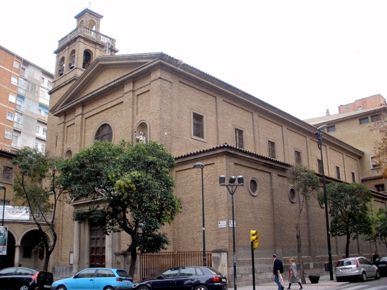 Iglesia de San Juan de la Cruz (Zaragoza)